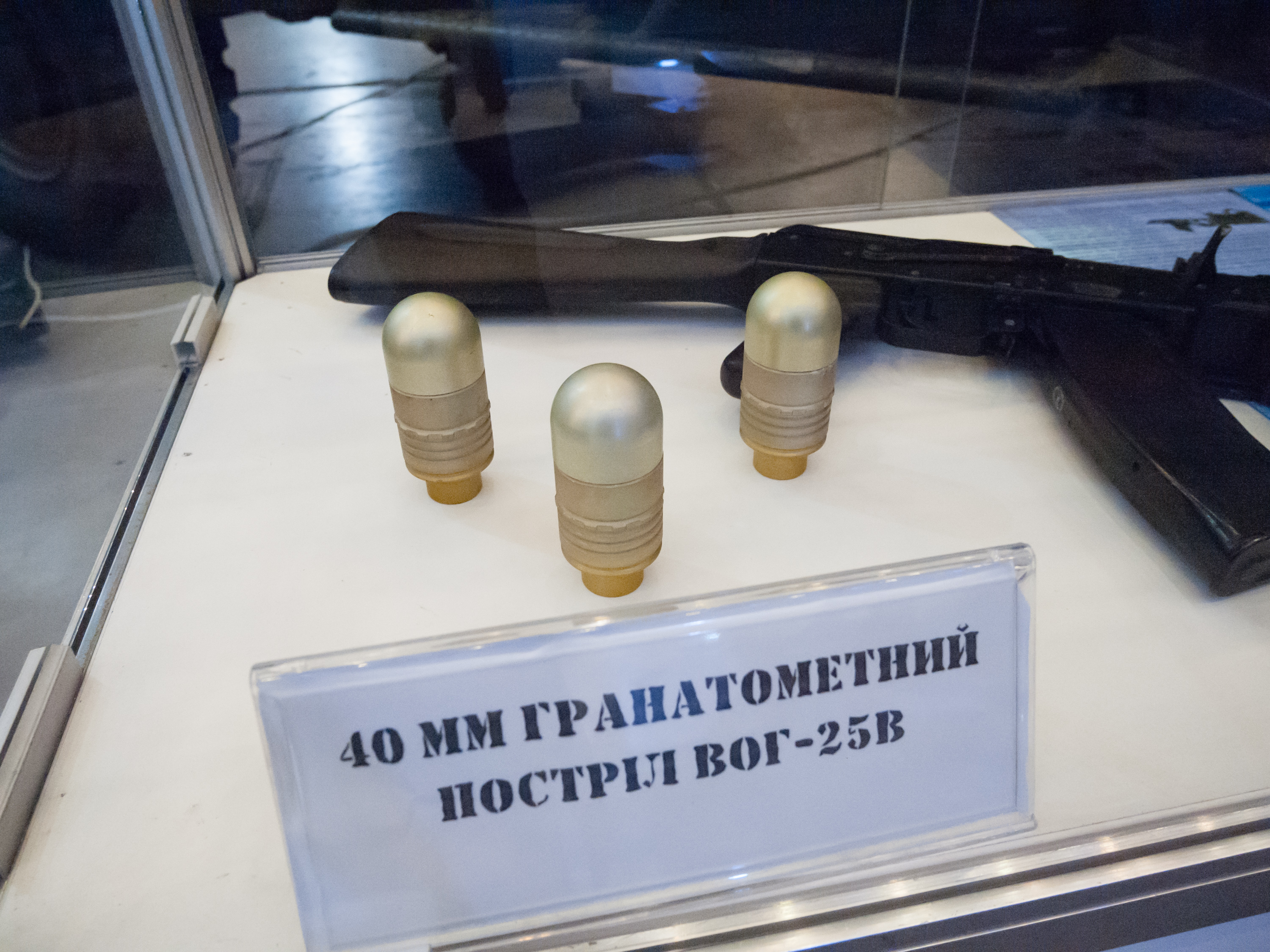 Underbarrel grenade 40mm (Ukraine)